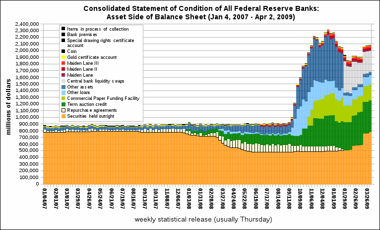 Components of the asset side of the Federal Reserve System balance sheet using statistical release dates from January 4, 2007 to Arpil 2, 2009. This is the assets of all 12 Federal Reserve Banks combined as reported by the Federal Reserve. This image was created using Calc spreadsheet program. See table below for source data. The data was obtained from